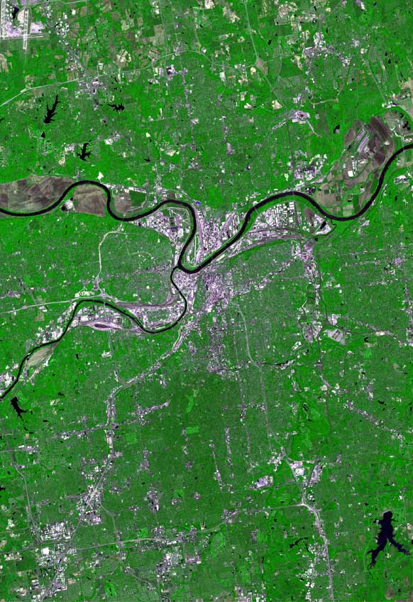 The raw satellite imagery shown in these images was obtain from NASA and/or the US Geological Survey. Post-processing and production by